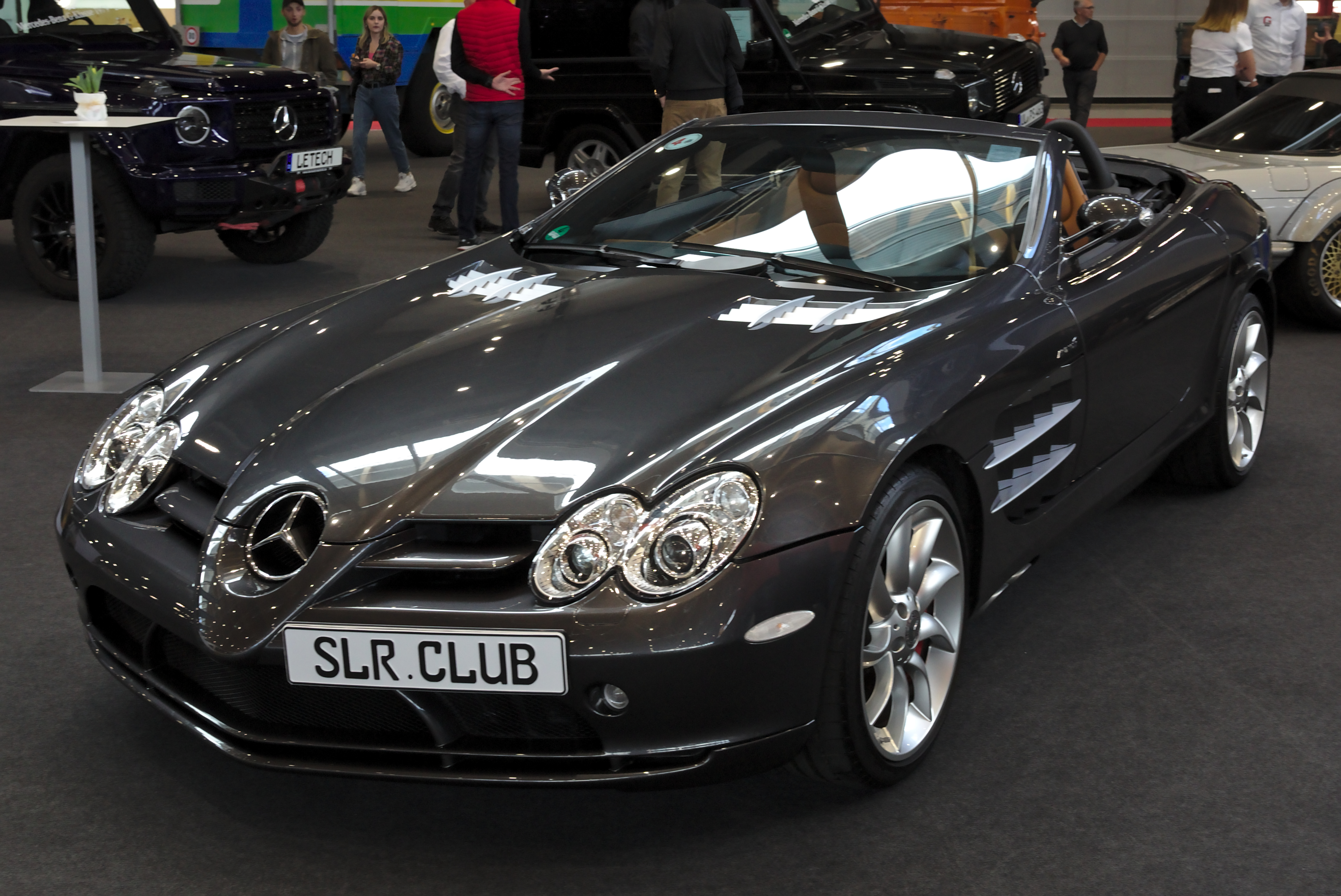 Mercedes-Benz SLR McLaren Roadster at Retro Classics 2019